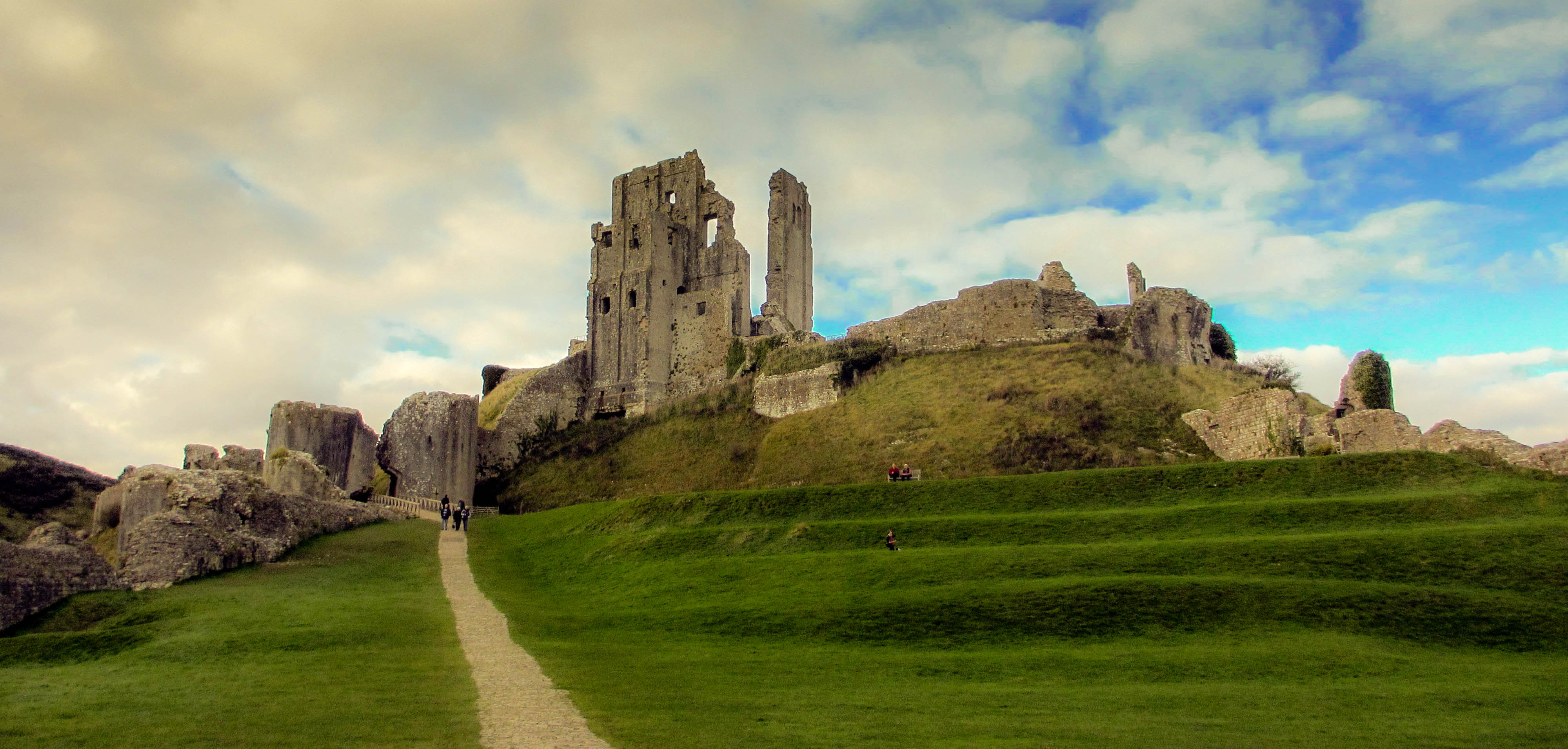 CORFE CASTLE Wikidata has entry Q1236511 with data related to this building.